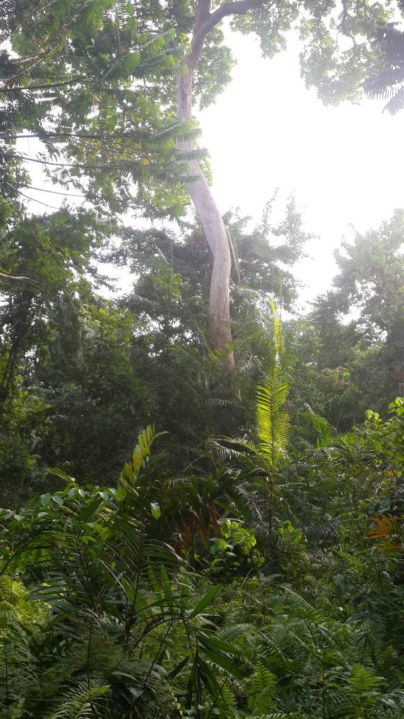 Nature's beauty